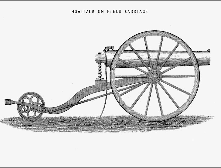 Line engraving of Dahlgren Boat Howitzer mounted on a Field Carriage.